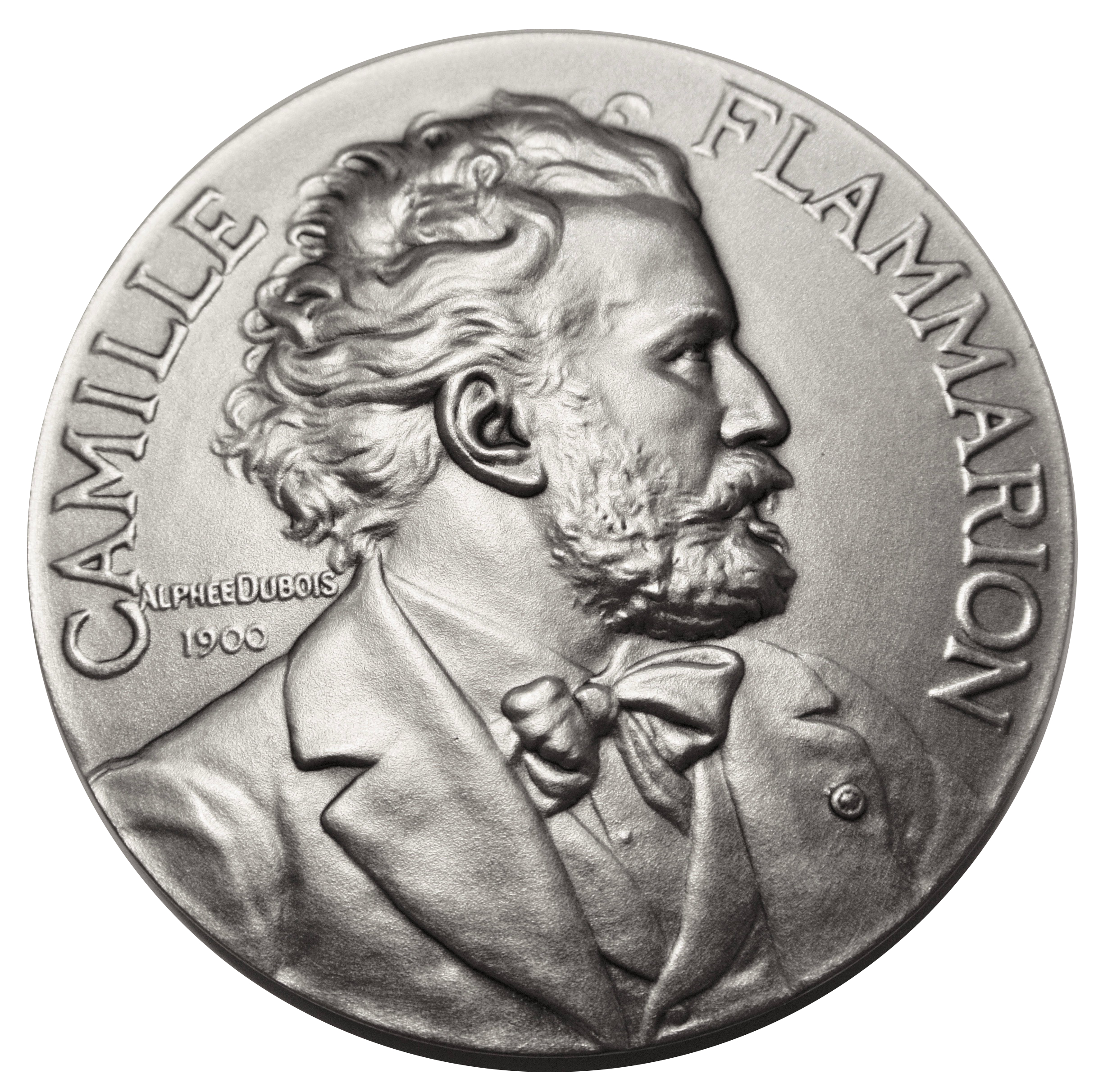 Medal of the Prix Henry Rey of the Société Astronomique de France, 2018